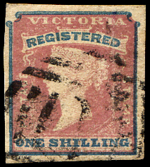 First registered postage stamp of Victoria (now part of Australia), Queen Victoria, 1 shilling, 1855, scott#F1